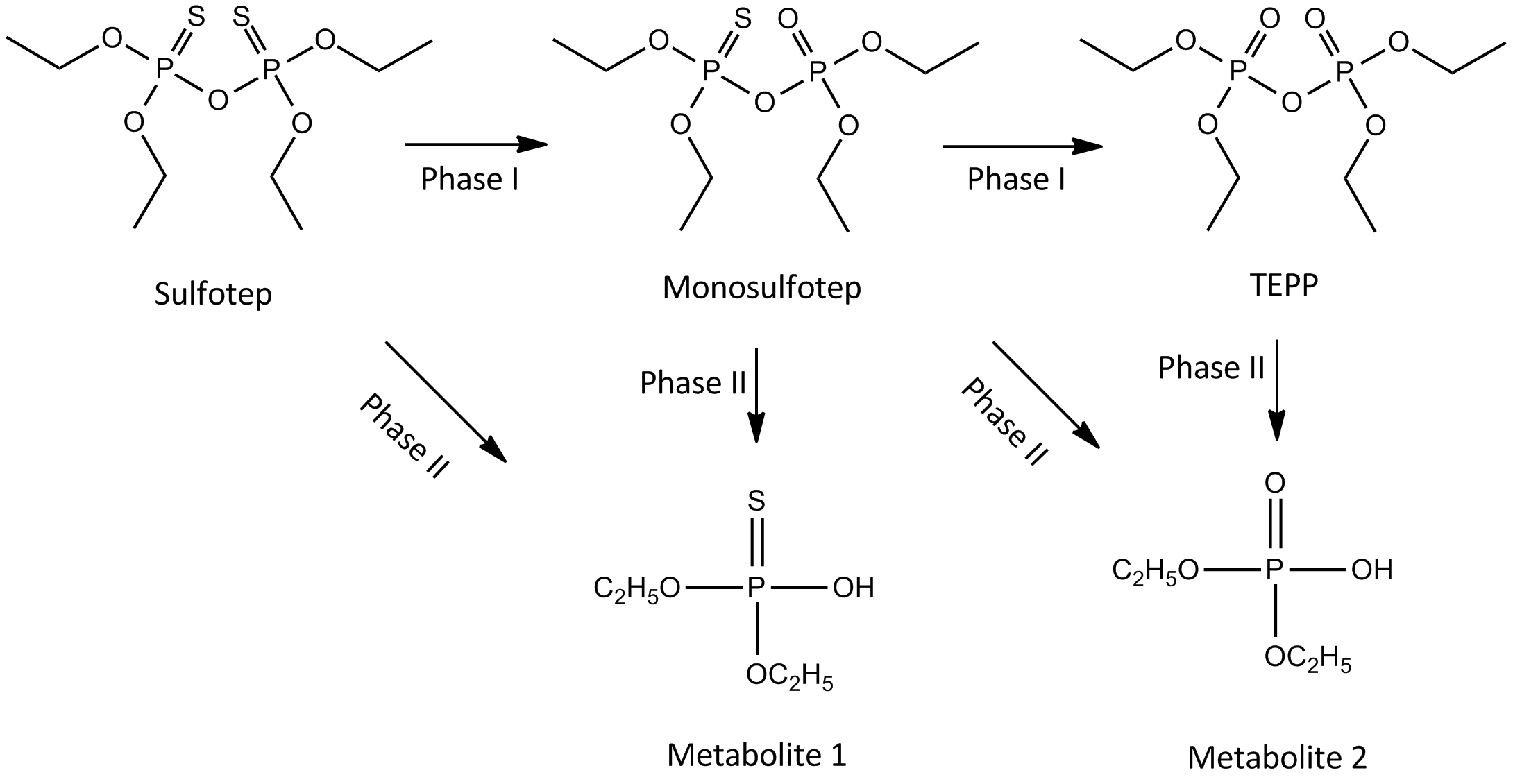 Phase I and phase II reactions in the biotransformation of sulfotep.